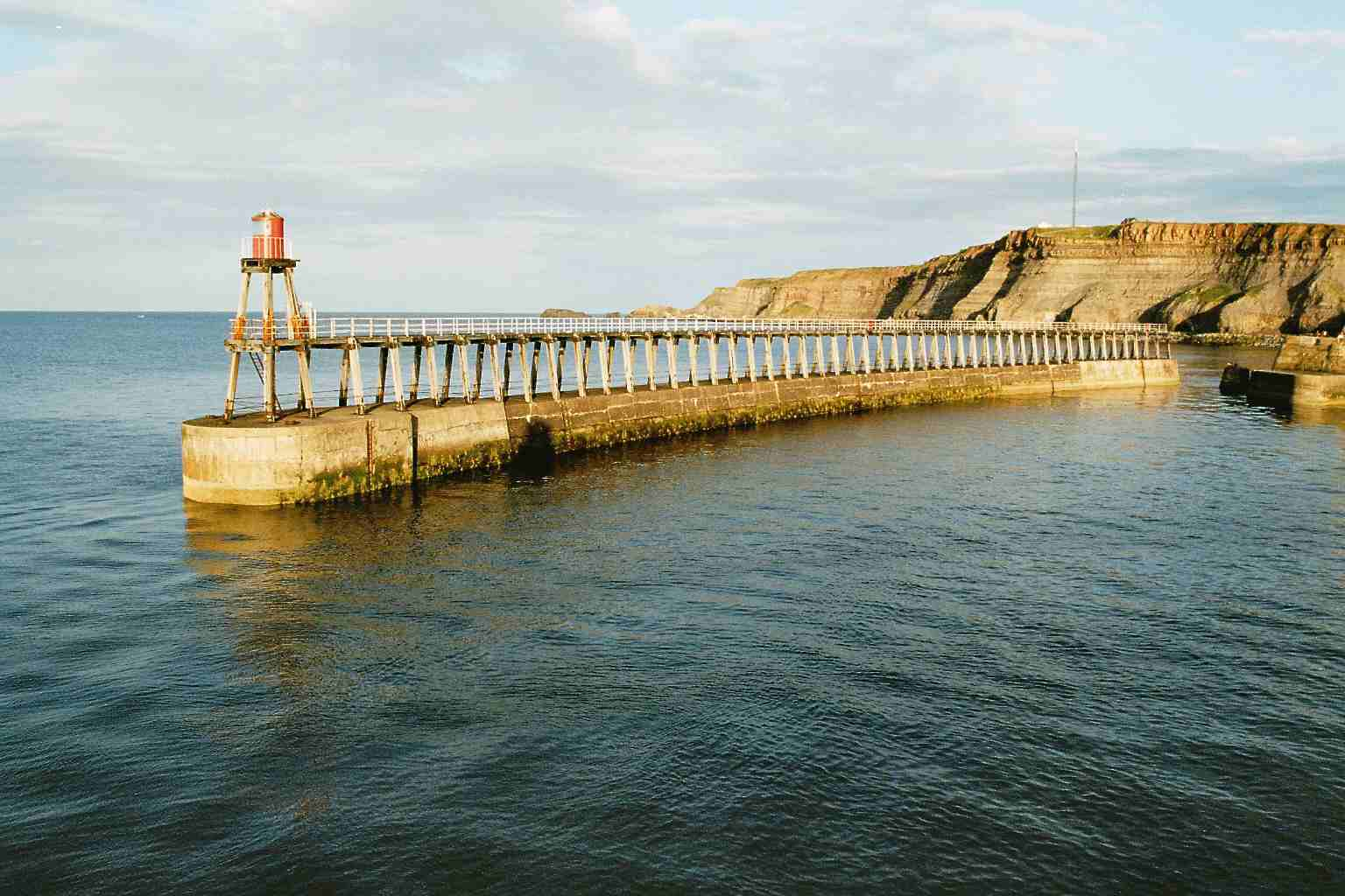 Whitby east pier